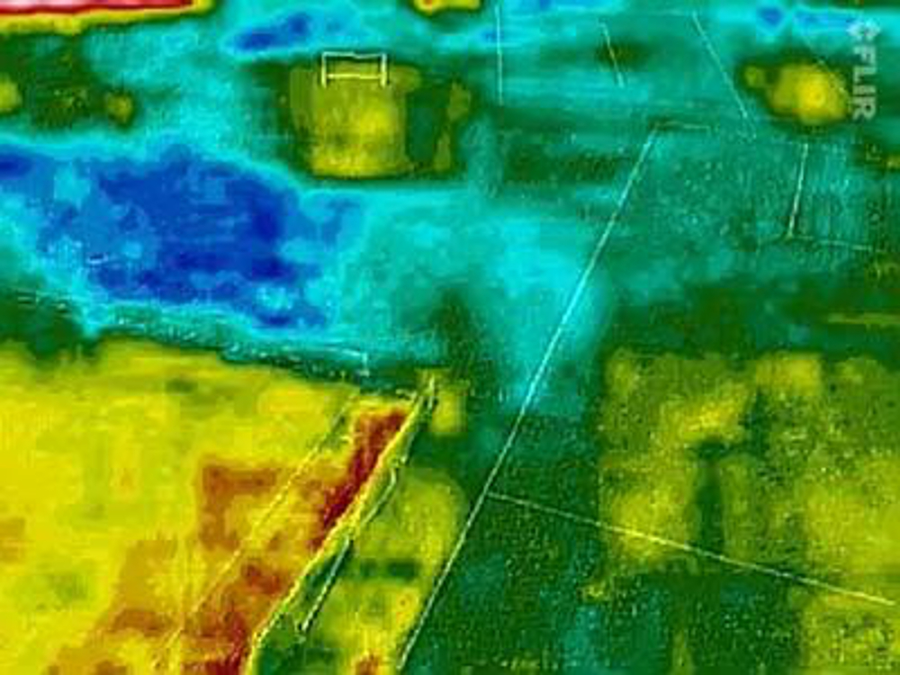 A thermal image revealing features on/under a grassed playing field. Visualisation is through differential 'drying', as the image was produced following a shower of rain a few hours earlier. Differential evapotranspiration is involved along with other factors. (*Archaeological aerial thermography/)